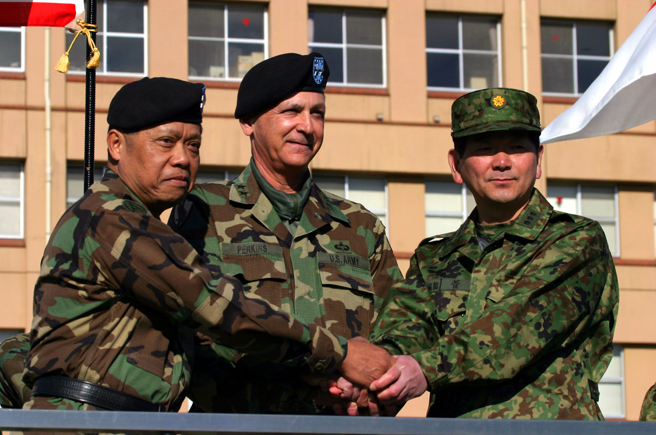 General Handshake: Executive Directors Lt. Gen. Hirotoshi Kan (right), Eastern Army commanding general, Lt. Gen Edward Soriano (left), 1st United States Corps commanding general, and exercise Executive Agent Maj. Gen. Elbert Perkins (center), United States Army Japan commanding general, join in a handshake to signify bilateral unification during Sunday's opening ceremony for Yama Sakura 45 at Camp Asaka, Japan. The six-day exercise is intended to strengthen bilateral relations between U.S. and Japanese armies.